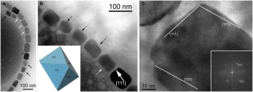 Magnetite magnetosomes with elongated octahedral habits in the magnetotactic Gammaproteobacteria strain SS-5. (A) TEM image of a chain of highly elongated magnetosomes. Black arrows mark crystals with pronounces octahedral facets, and white arrows point to magnetosomes with a “waisted” appearance, probably a result of twinning. (B) TEM image of part of a magnetosome chain with elongated octahedral habits (marked by black arrows and modeled in the lower left), a twinned crystal (marked by a white arrow), and a magnetosome showing slightly irregular surfaces, elongated approximately parallel to [111] (as indicated in the image). (C) High-resolution TEM image of the magnetosome in the lower right in (B), viewed along [1–10], as indicated by the Fourier transform in the lower right. The surfaces of the crystal slightly deviate from the octahedral planes as marked in the image.